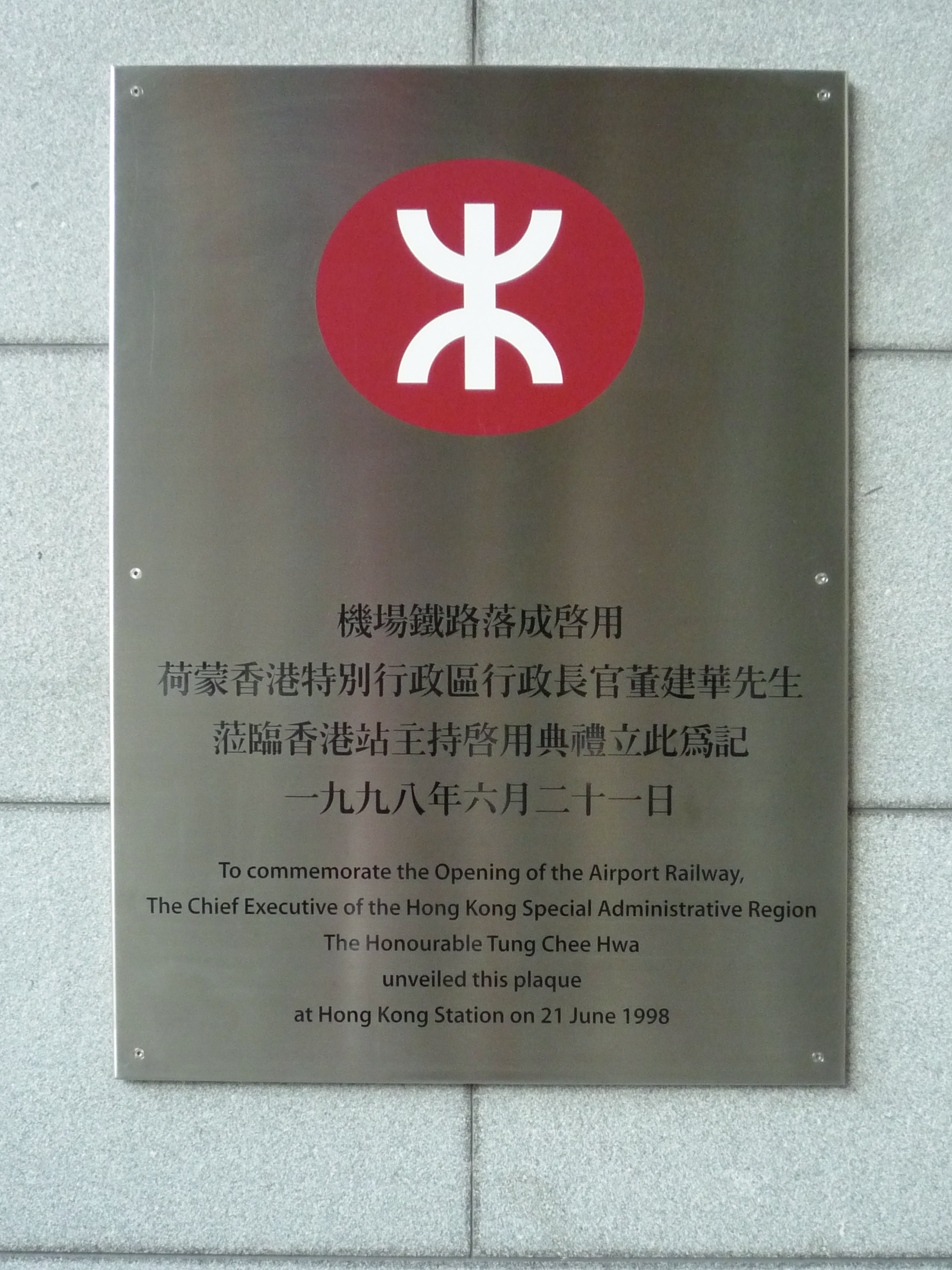 The memory sign for opening of the Airport Railway in MTR Hong Kong Station